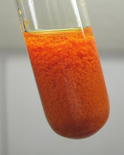 Freshly precipitated V2O5 by acidifying a solution of a metavanadate with dilute H2SO4 to pH near 2.